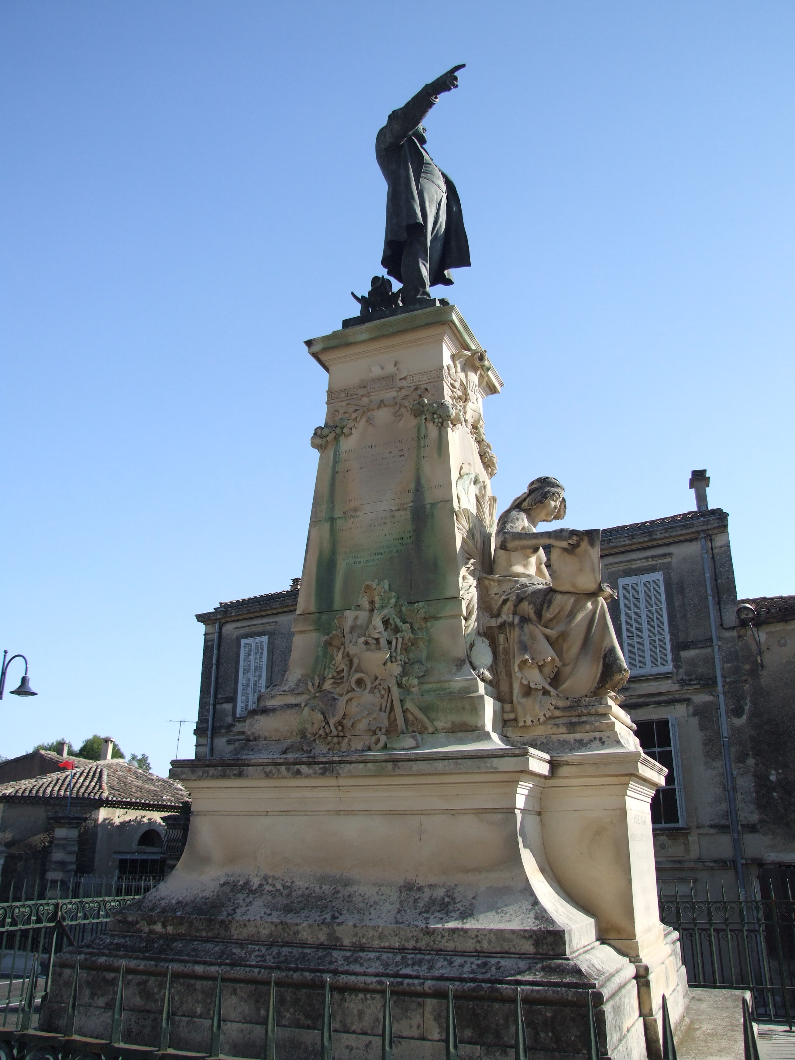 Aigues-Vives (Gard) is a commune, situated on the D142 in the Vaunage, in the departement of Gard in the region Languedoc-Roussillon in southern France. Its post code is F30670 and INSEE 30004. Émile Jamais (1856-1893) a deputy for Gard. Monument by Charpentier.